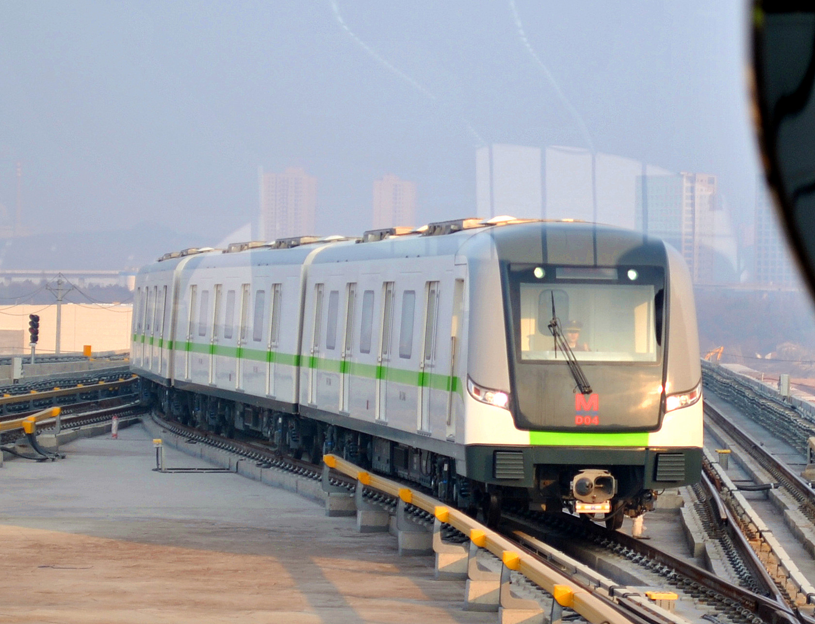 Line 4 train of Wuhan Metro